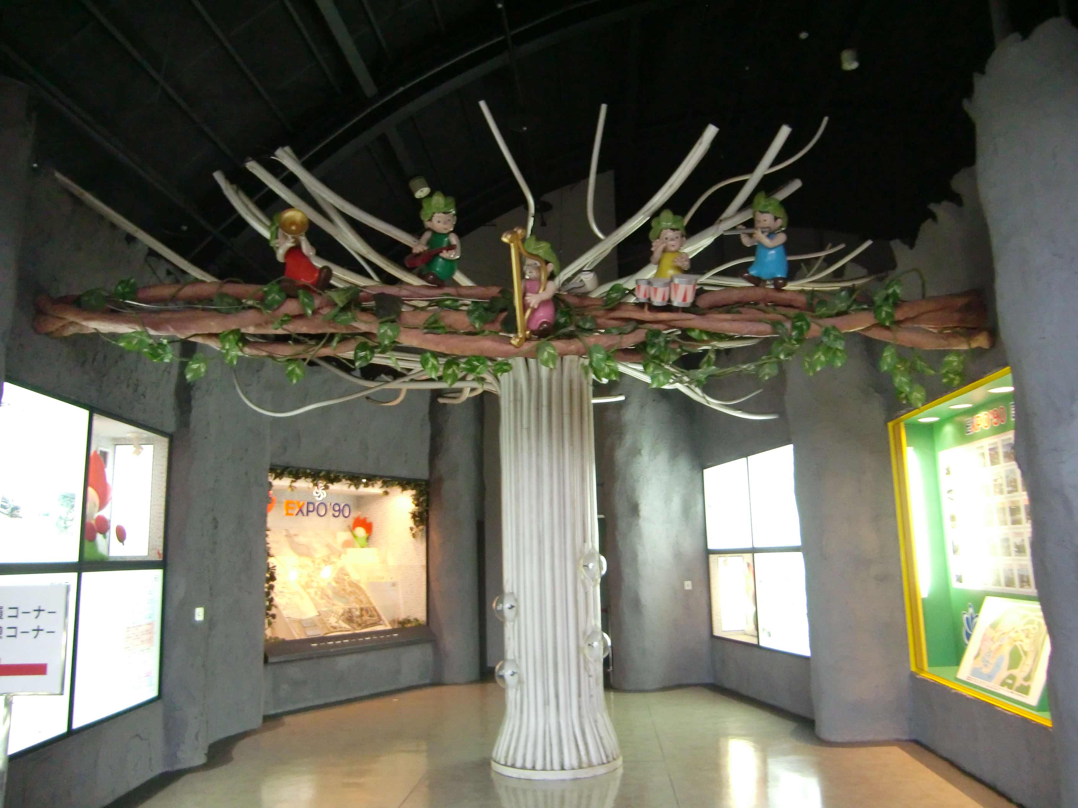 Statue of Life, 2-163 Ryokuchi-koen Tsurumi-ku Osaka-City OSAKA Japan.